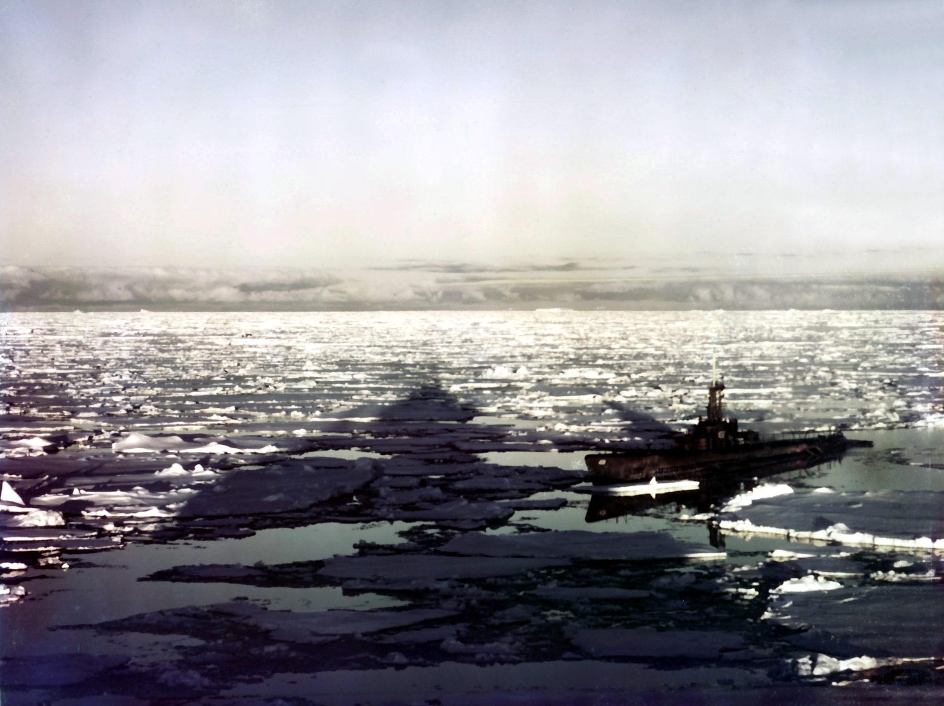 The U.S. Navy submarine USS Sennet (SS-408) in the ice of the Antarctic during "Operation Highjump".